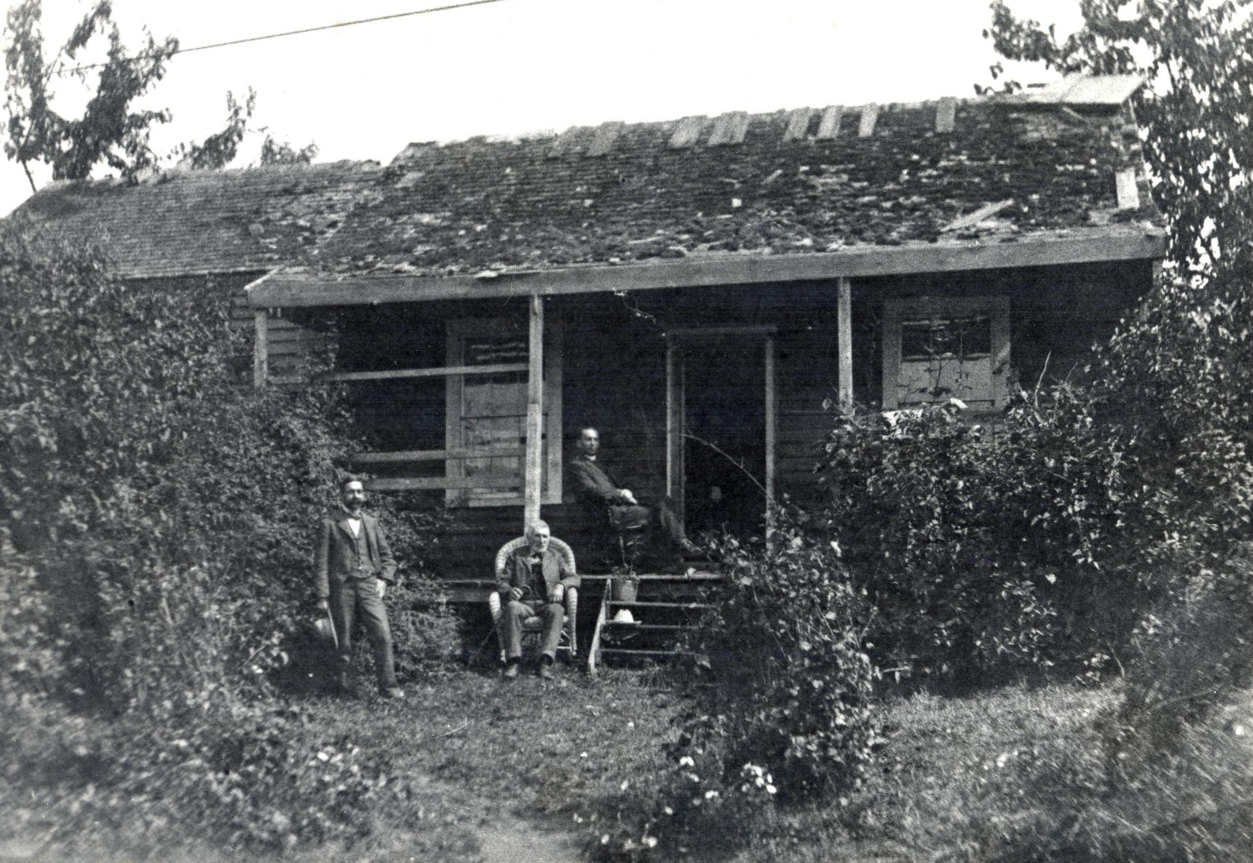 The cottage lived in by Emory Ferguson, early pioneer of Snohomish, Washington, taken circa 1902. Ferguson is seated in front.